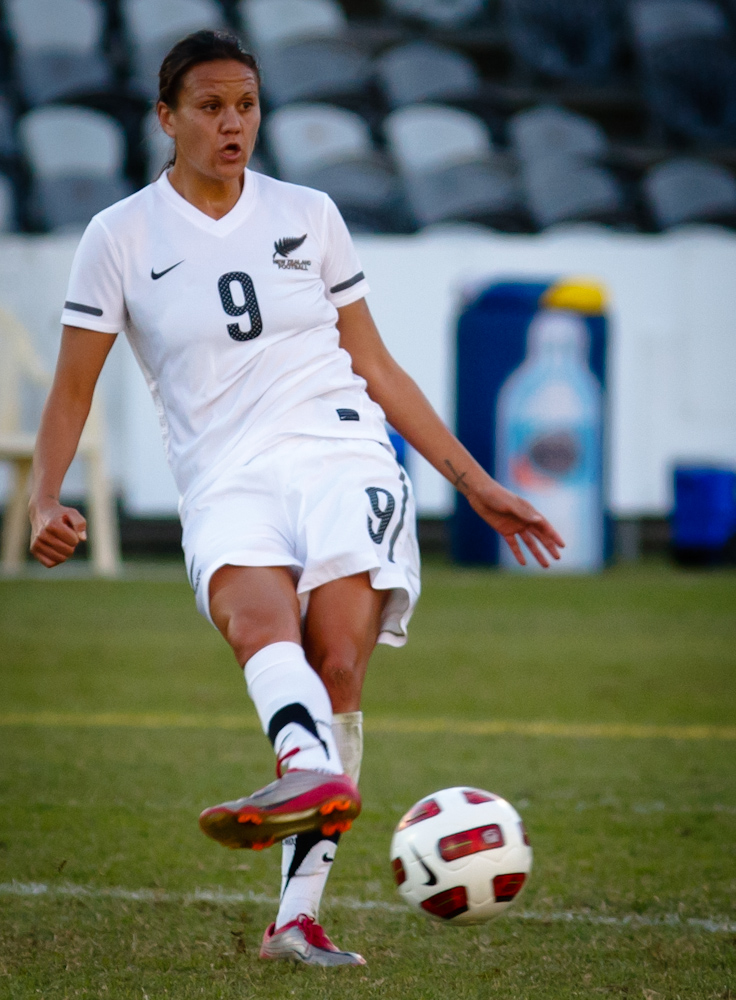 Amber Hearn playing for the New Zealand women's national football team against Australia.